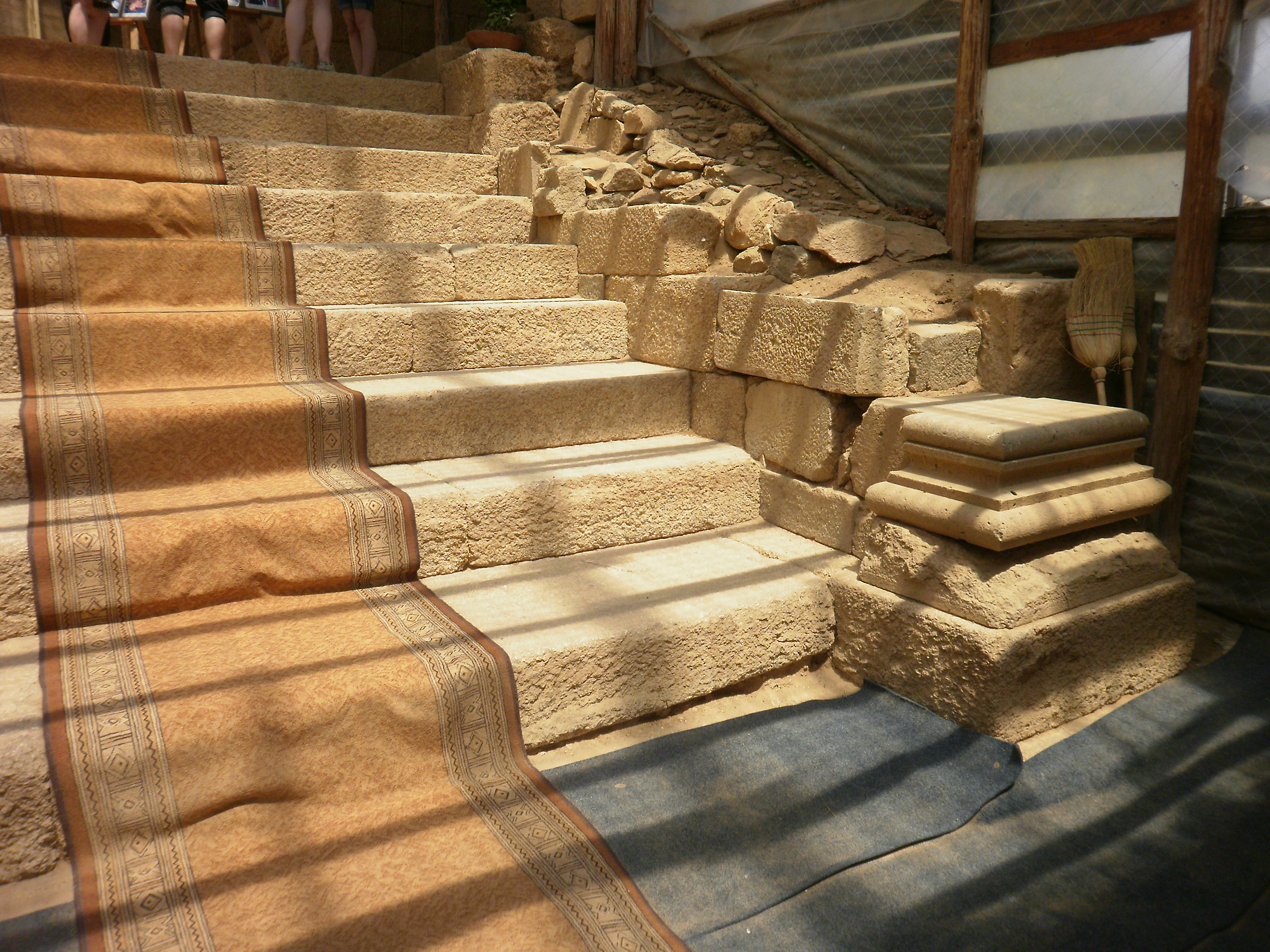 Thracian Tomb near Starosel, Bulgaria.